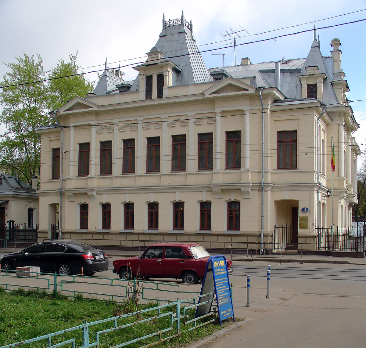 Main hall of the Tselibeeva - Karpova house, now embassy of Mali in Russia (Moscow, 11 Novokuznetskaya Street). Architect: A. P. Vakarin, 1899-1900.